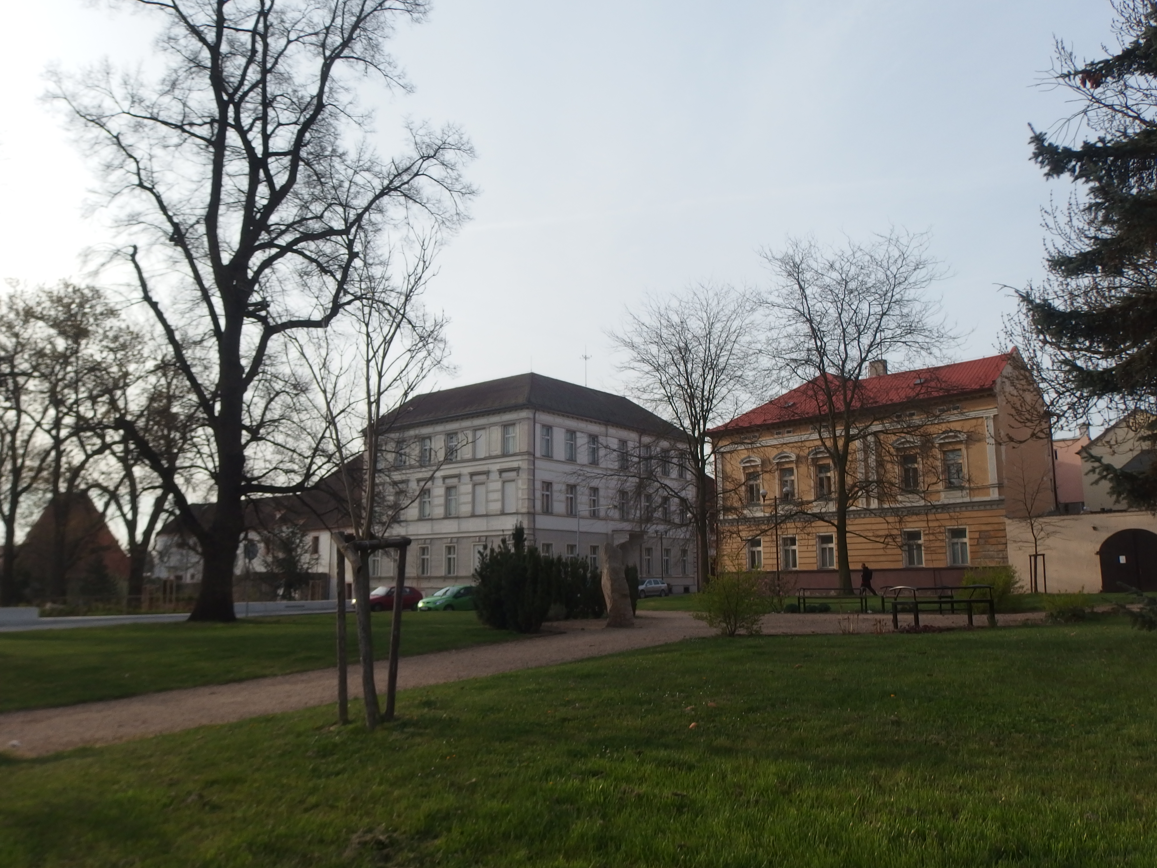 Kadaň, Chomutov District, Czech Republic. Löschnerovo náměstí square.